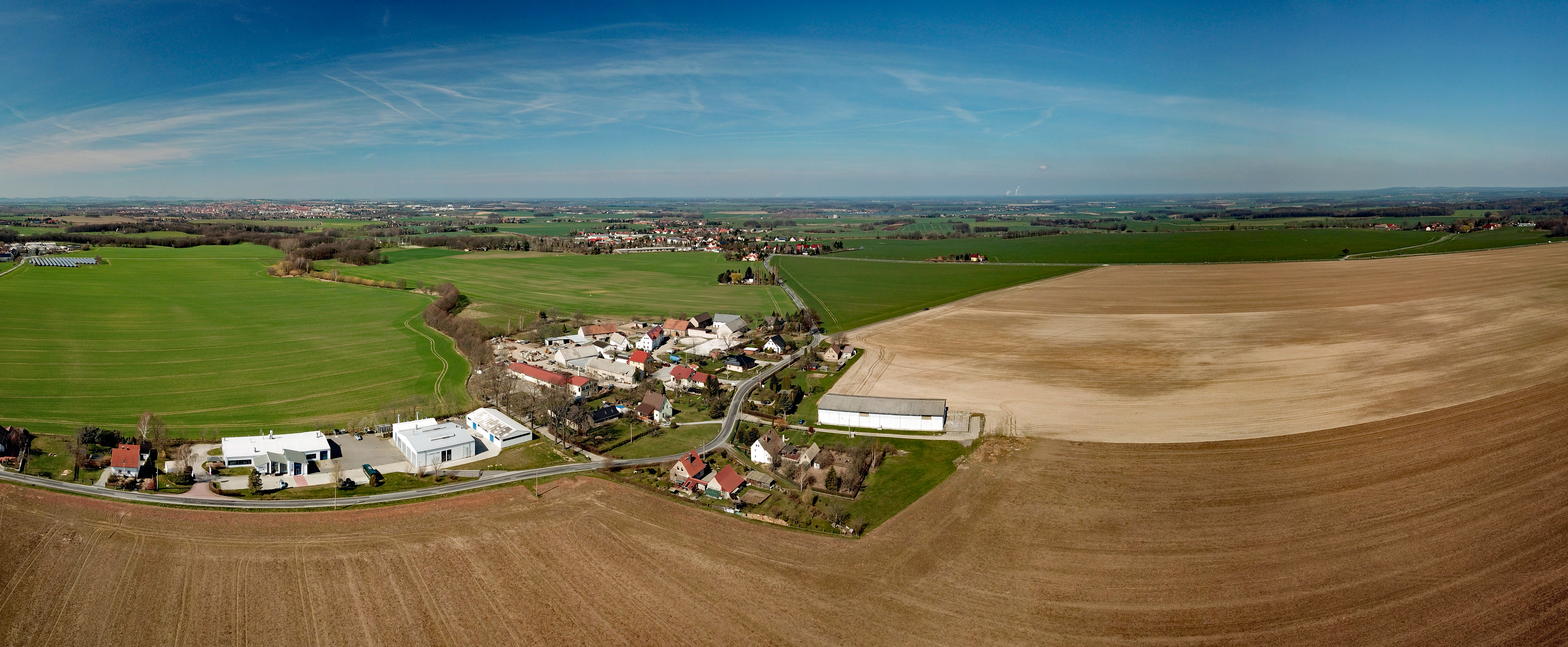 Scheckwitz (Kubschütz, Saxony, Germany) Hornjoserbsce: Powětrowy wobraz Šekec Dieses Foto wurde mit einem Quadcopter innerhalb der RMZ des Flugplatzes EDAB aufgenommen. Der Flugleiter wurde am Aufnahmetag telephonisch über Ort und Zeit informiert und hat zugestimmt. Der Flug erfolgte auf Grundlage der Allgemeinverfügung der Landesdirektion Sachsen zur Erteilung der Betriebserlaubnis für unbemannte Luftfahrtsysteme und Flugmodelle gemäß § 21a LuftVO und Zulassung von Ausnahmen von Betriebsverboten gemäß § 21b LuftVO für den Freistaat Sachsen.